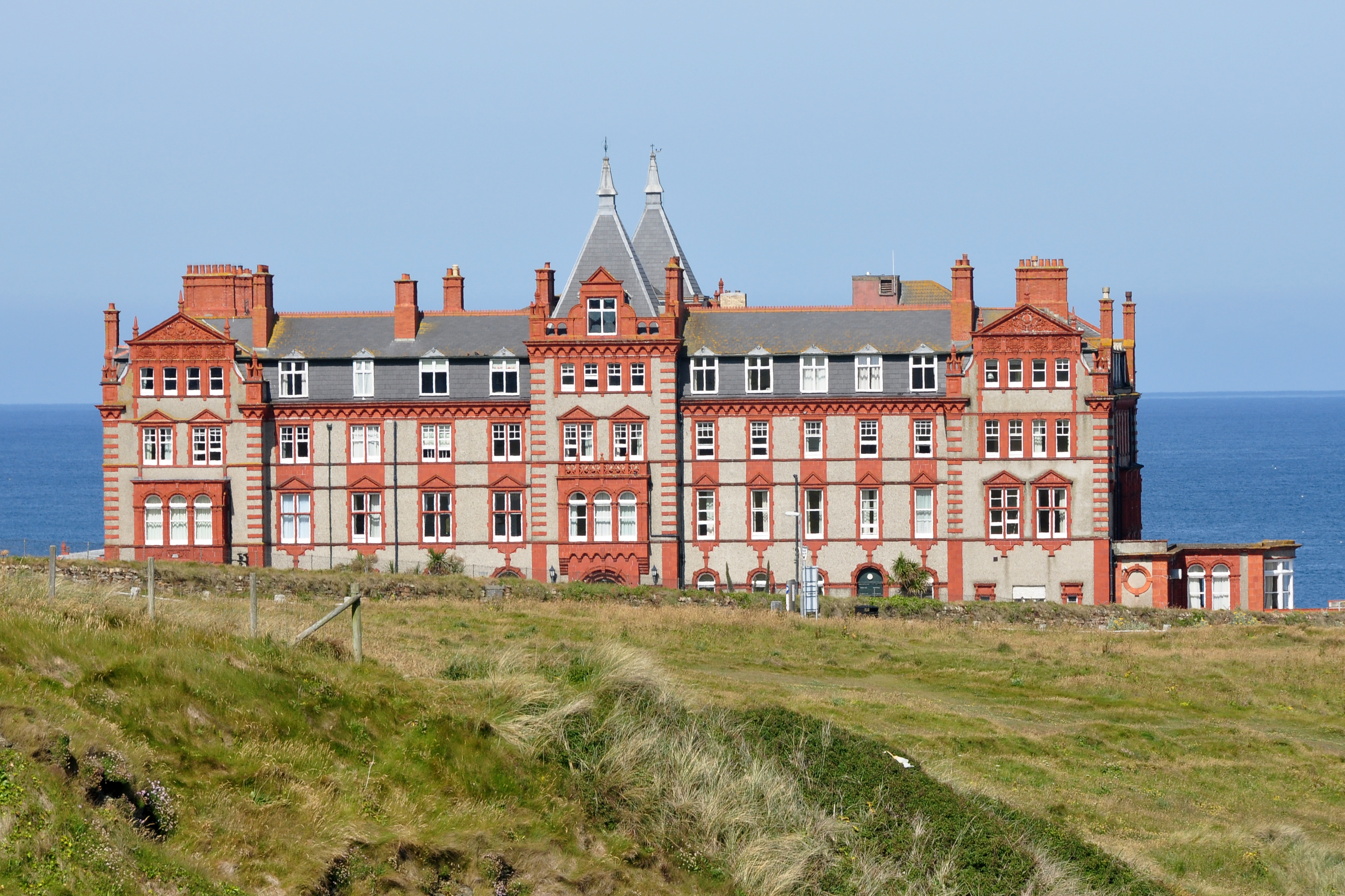 The Headland Hotel, overlooking Fistral Bay, in Newquay, Cornwall.